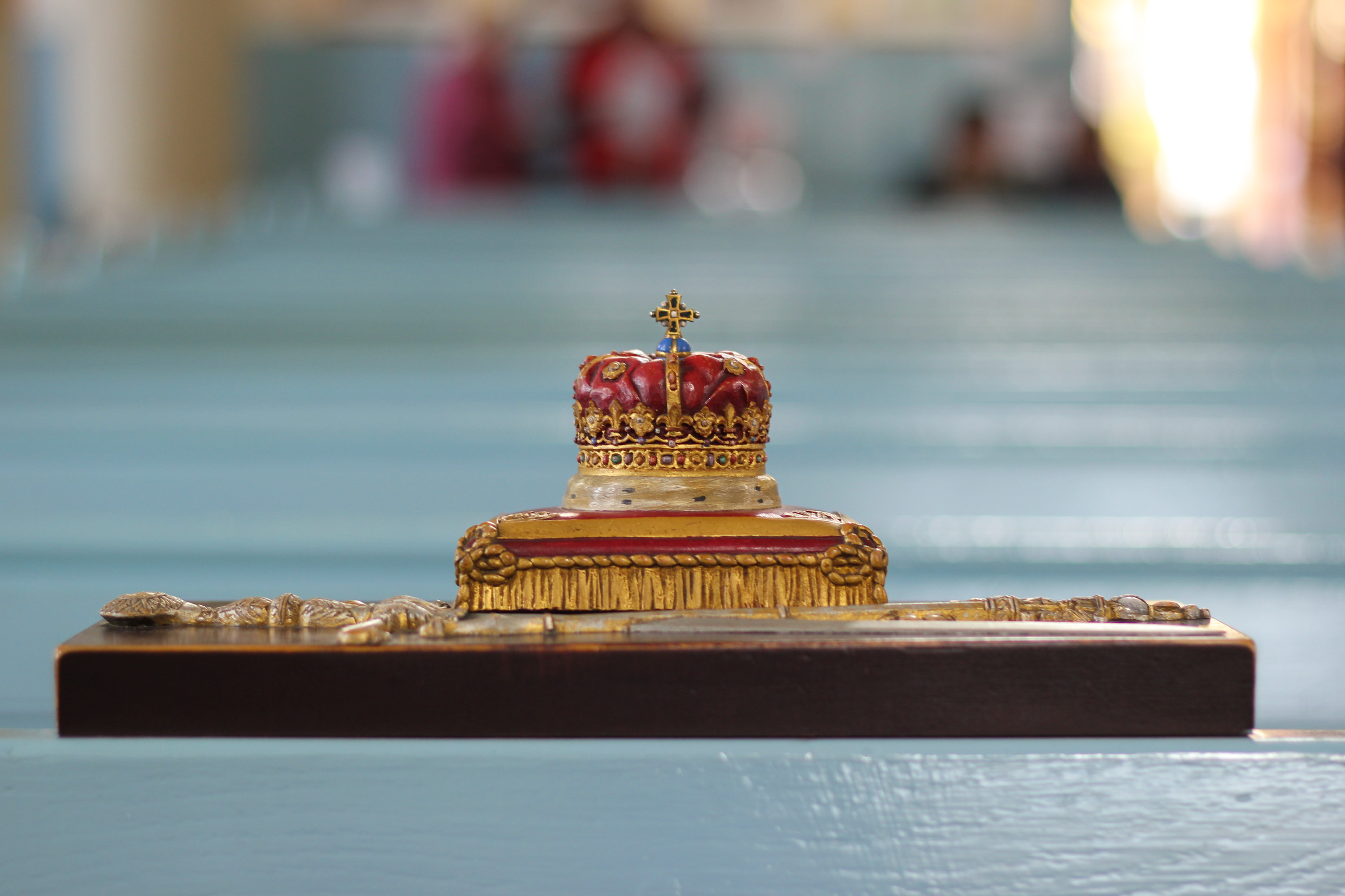 The Royal Pew inside the Canongate Kirk in Edinburgh's Old Town, Scotland. The pew is surmounted by a model of the Honours of Scotland, an exact representations of the crown, sceptre and sword which are displayed in the Crown Room in the Castle.